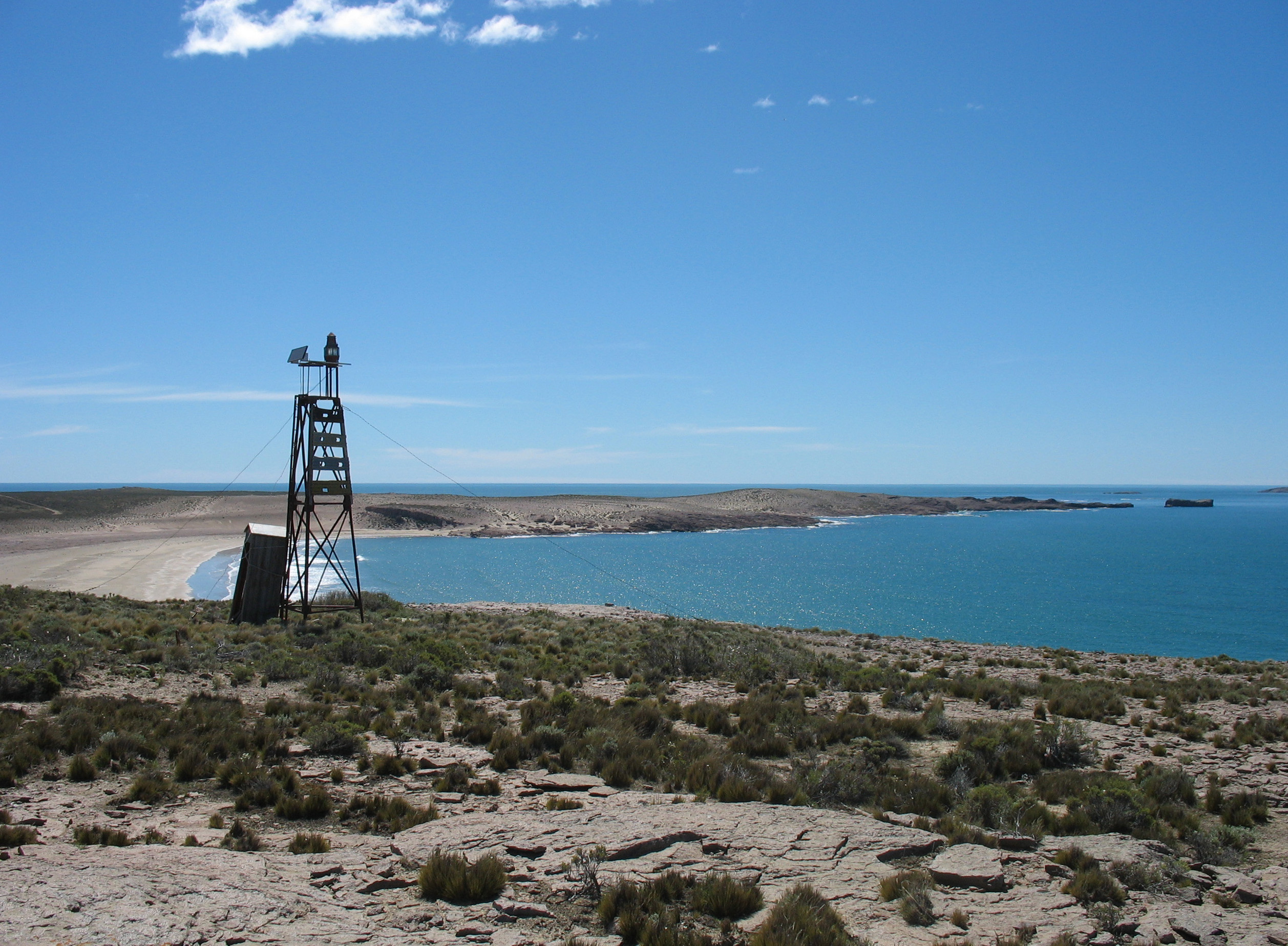 View of the Baliza Azopardo and Bahia del Oso Marino